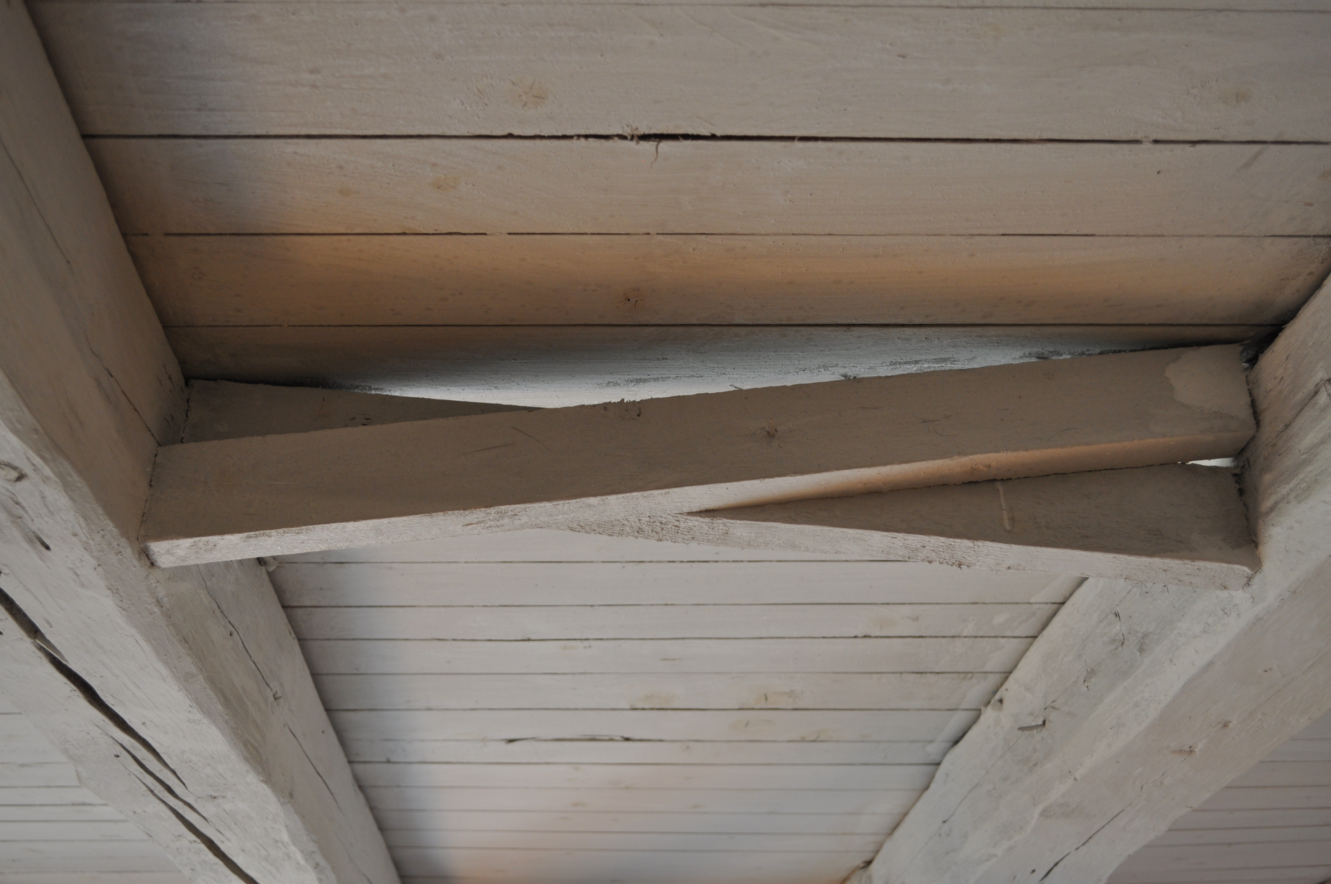 Timber construction for floor and ceilings - Krysskolvning av bjälklag.